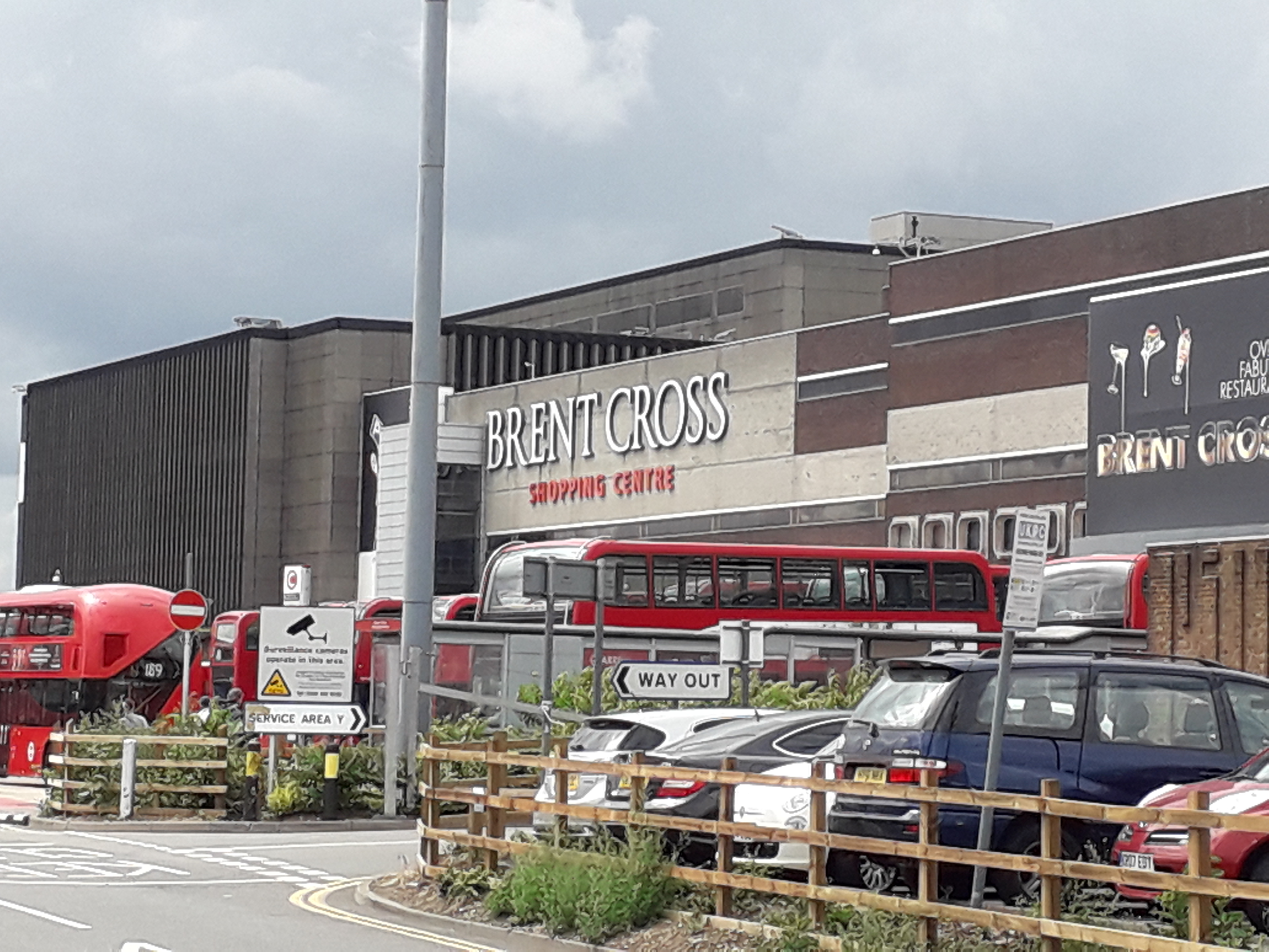 Brent Cross entrance